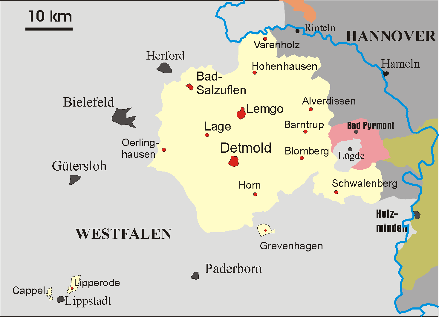 Map of the principality (later free state) of Lippe 1815–1945